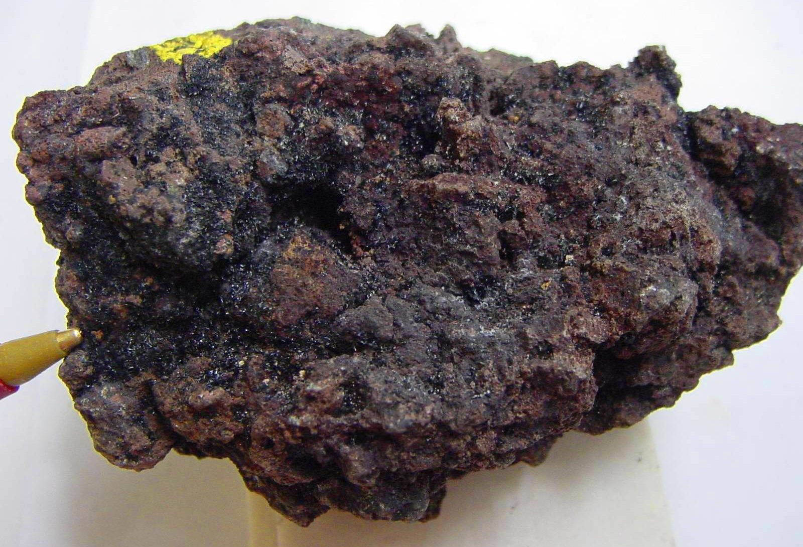 Tenorite (synonym: Melaconite, Pen for scale) - Mineral collection of Brigham Young University Department of Geology, Provo, Utah. BYU index 4-8056